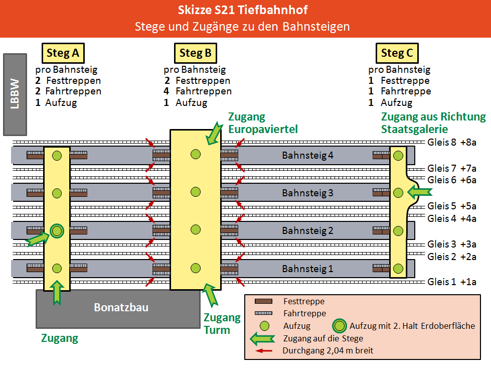 A schematic view on the future Stuttgart Main Railway station (project "Stuttgart 21"). Red arrows indicate bottlenecks where only 2.04 meters remain between the stairs (center) and the corner of the platform.